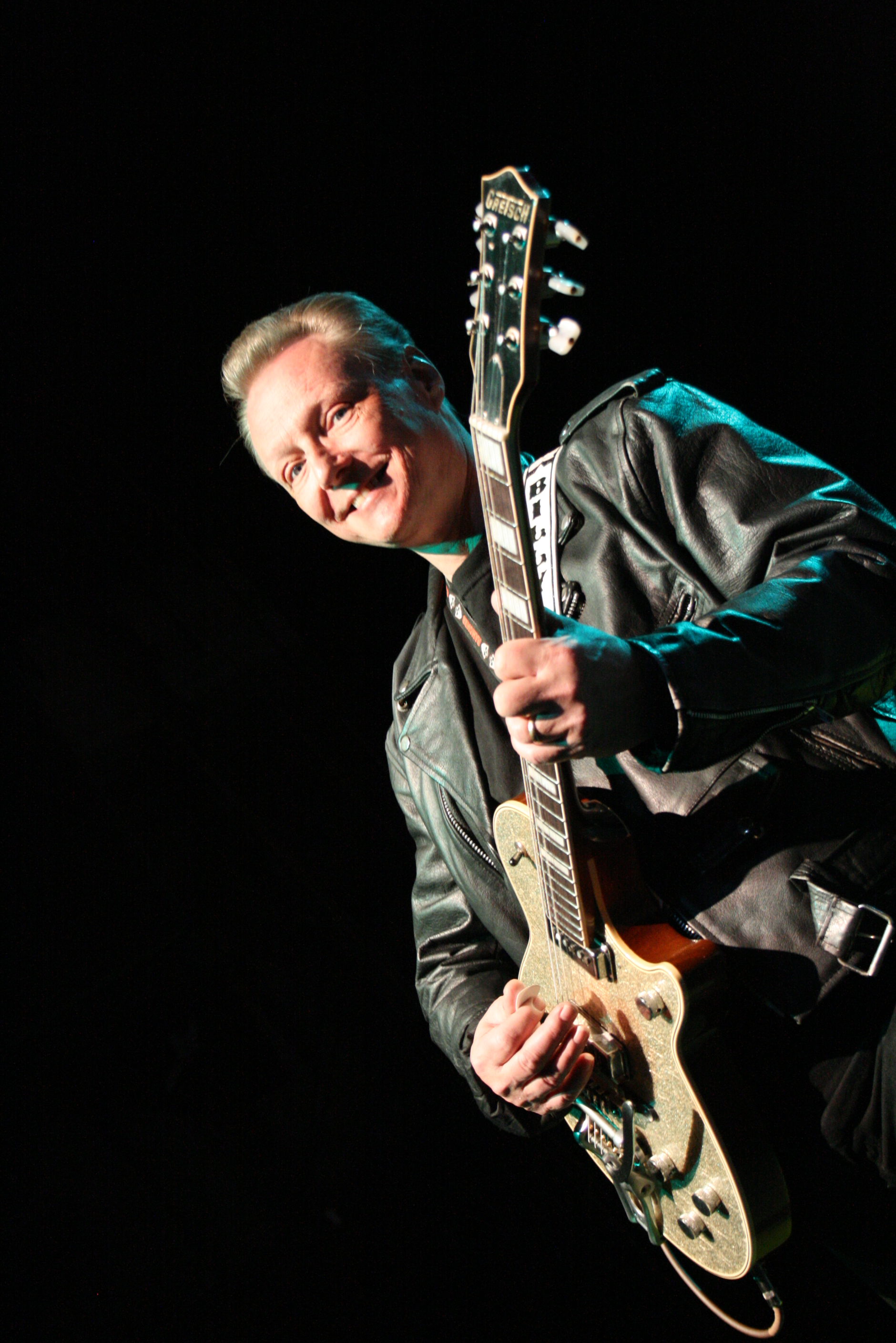 Billy Zoom (born Tyson Kindell on February 20, 1948, in Savanna, Illinois)at The Henry Fonda, Hollywood,CA 4/10/08Billy Zoom of X